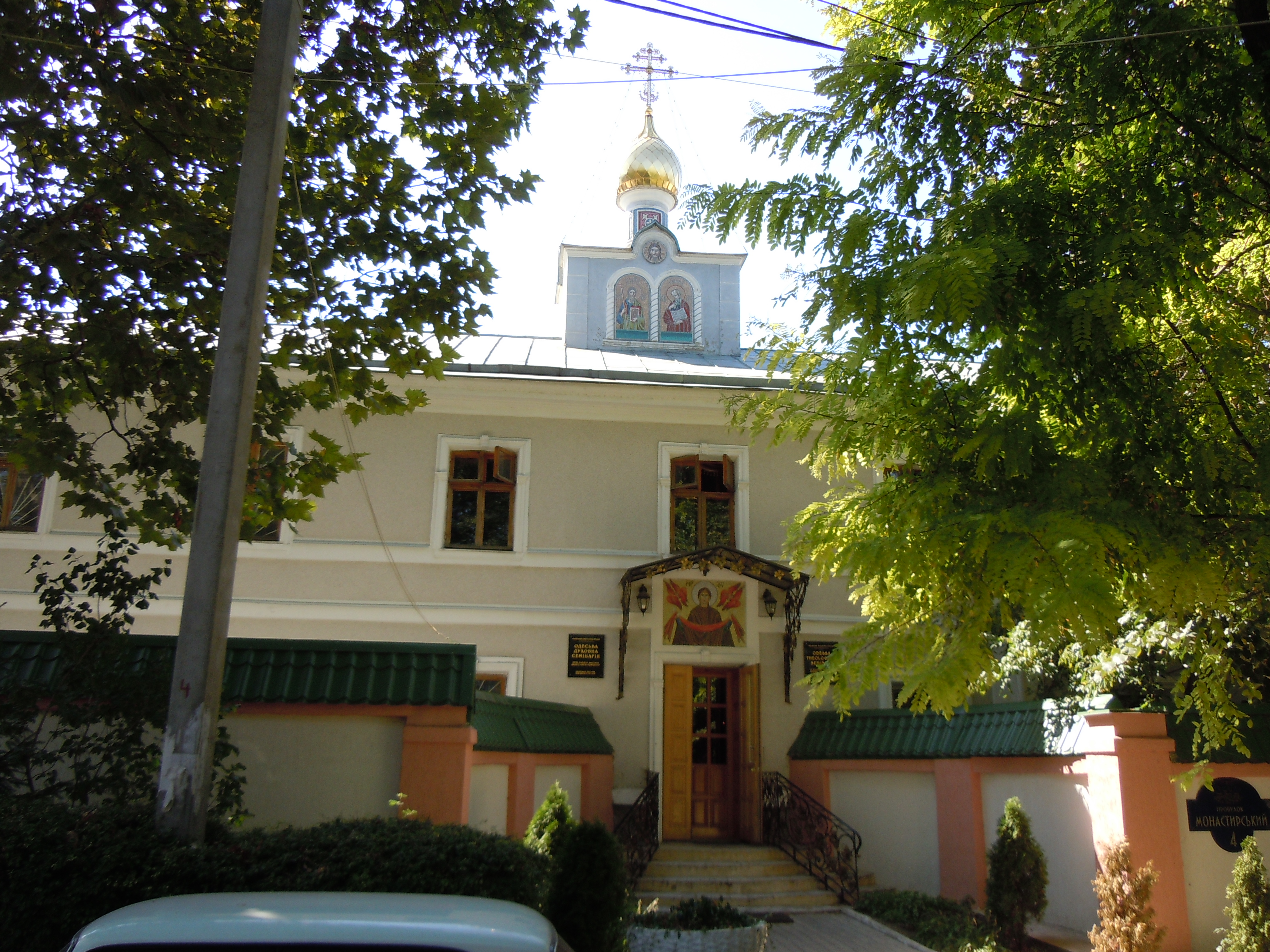 Main building of the Odessa Theological Seminary, Odessa, Ukraine